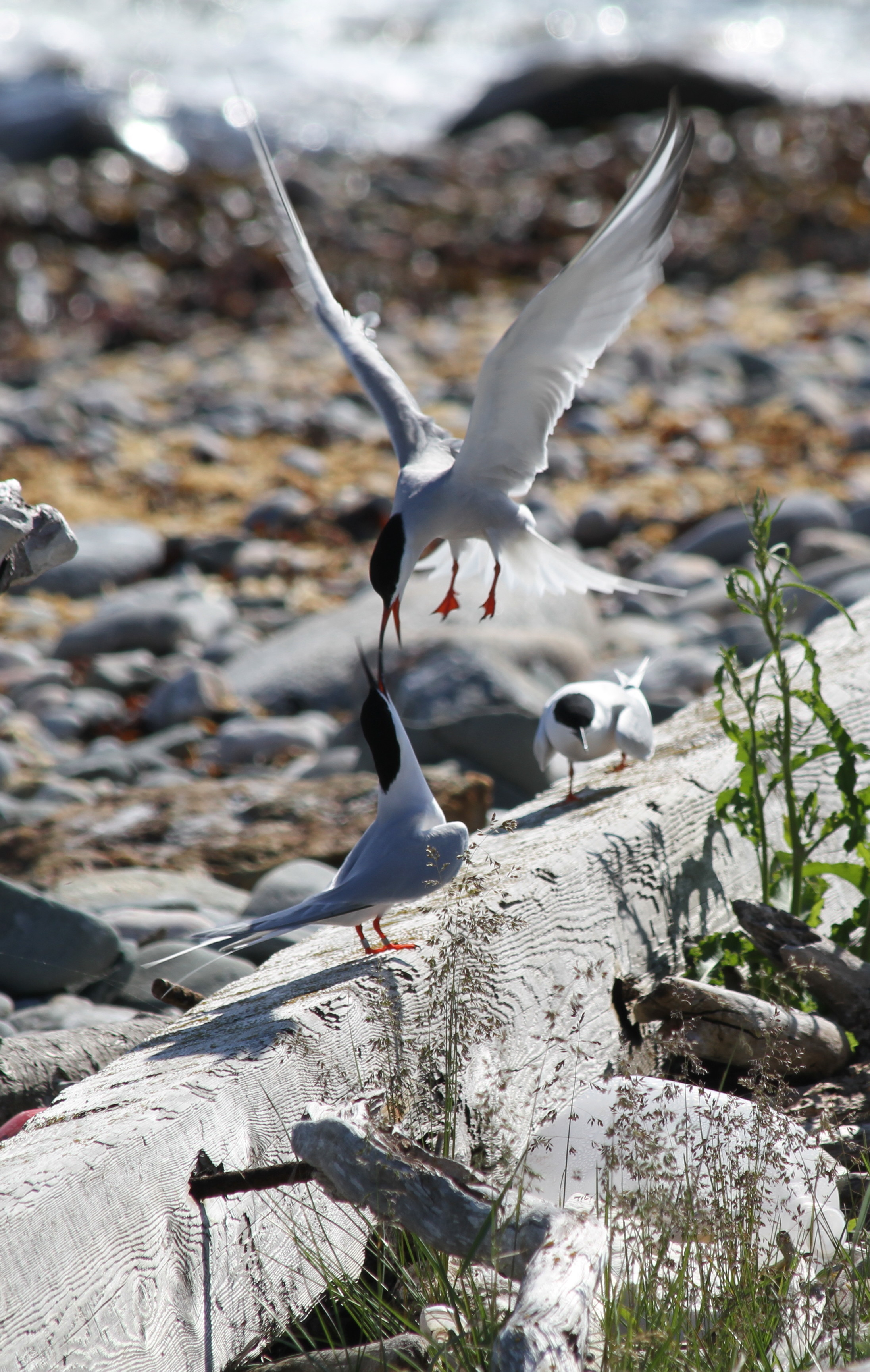 Metinic Island, Maine Coastal Islands NWR. Summer with the Seabirds blog: Credit: Brette Soucie/USFWS